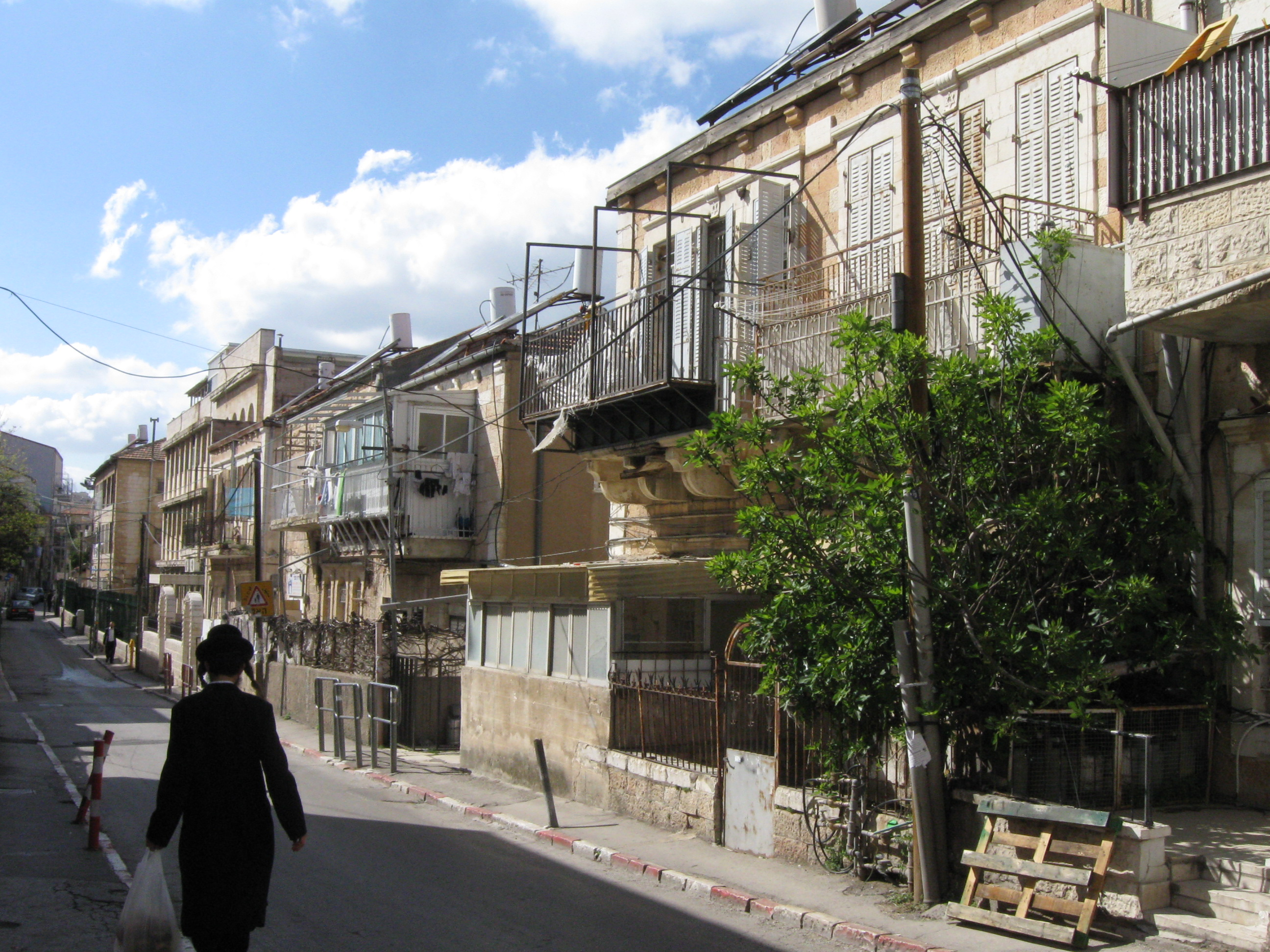 Chofetz Chaim Street in the Zikhron Moshe neighborhood.